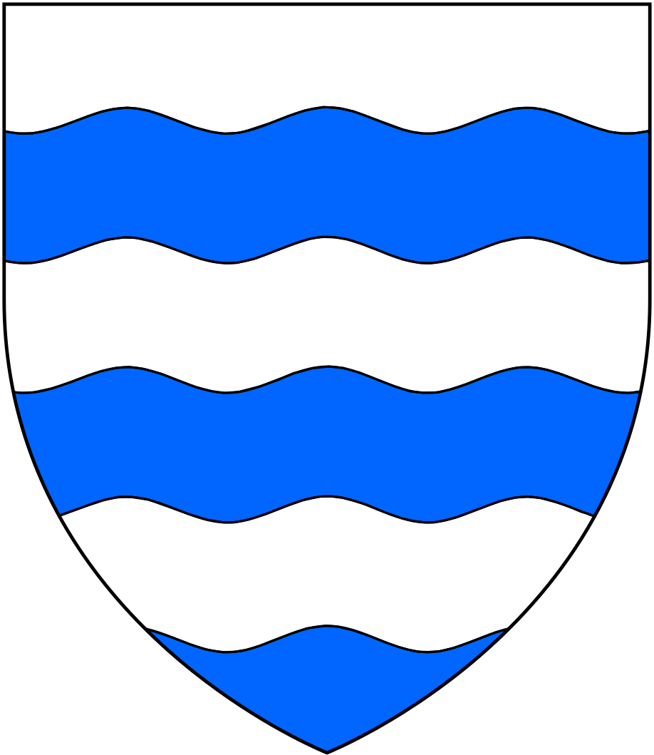 Arms of Browning (or Brunning,Brounyng, etc) of Melbury Sampford in Dorset: Barry wavy of six argent and azure (Source: "Monumental Heraldry in Dorset", in An Inventory of the Historical Monuments in Dorset, Volume 5, East (London, 1975), pp. 121-129[1])